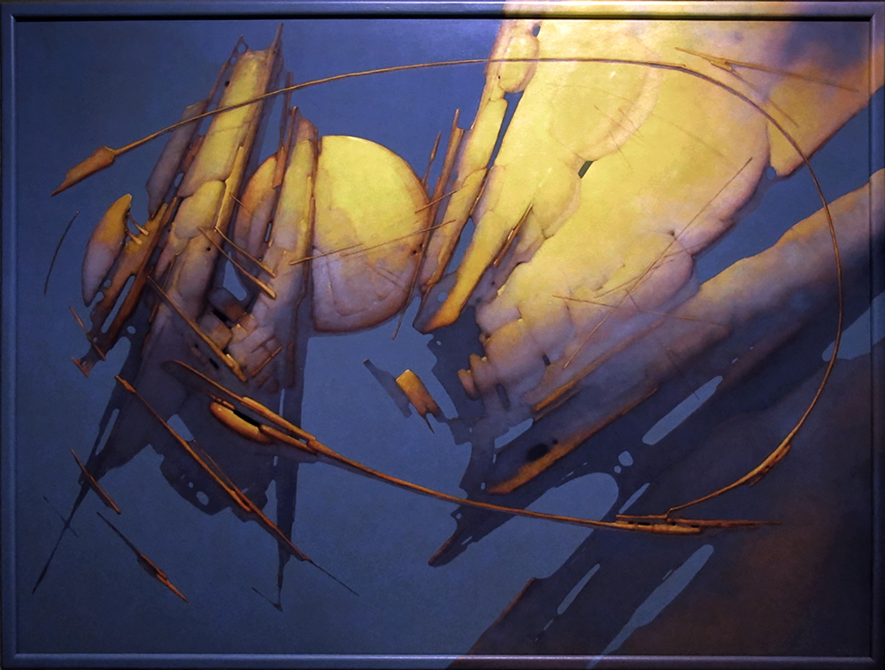 Paisatge Daurat 1993 by Joan Castejon Oil on canvas 157x206 1993